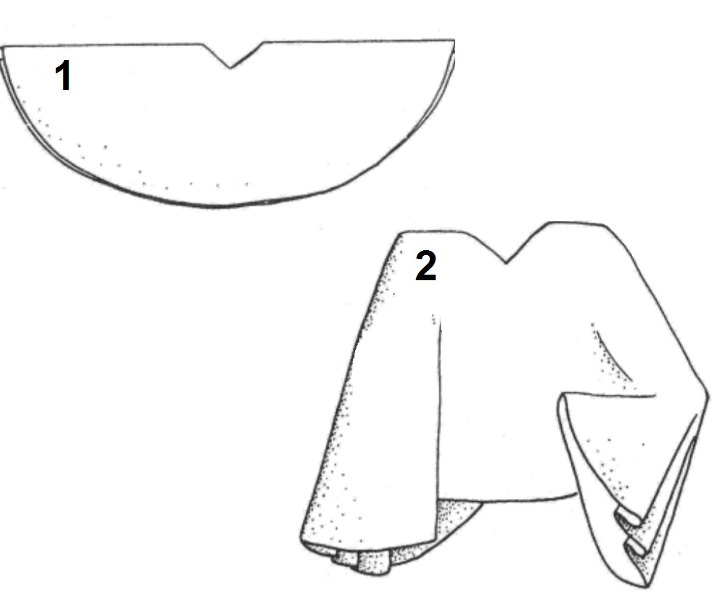 Persian clothing.